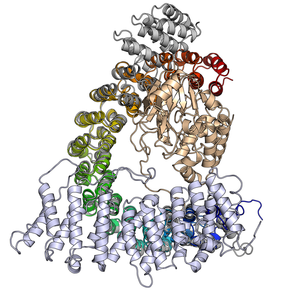 The assembled heterotrimer of protein phosphatase 2A. The regulatory subunit A, consisting of 15 HEAT repeats, is shown in rainbow color with the N-terminus in blue at bottom and the C-terminus in red at top. (Compare File:Alpha solenoid pp2a 2iae with single repeat center.png.) The regulatory subunit B, consisting of irregular pseudo-HEAT repeats, is shown in light blue. The catalytic subunit C is shown in tan. (All from PDB ID 2IAE.) Superposed is the unbound form of the regulatory subunit A in gray (from PDB ID 1B3U), illustrating the flexibility of this alpha solenoid protein. Conformational changes in HEAT repeat 11 result in flexing the C-terminal end of the protein to accommodate binding of the catalytic subunit. PDB 2IAE: Cho US, Xu W. Crystal structure of a protein phosphatase 2A heterotrimeric holoenzyme. (2007). Nature 445, 53-57. DOI 10.1038/nature05351 PDB 1B3U: Groves MR, Hanlon N, Turowski P, Hemmings BA, Barford D. The structure of the protein phosphatase 2A PR65/A subunit reveals the conformation of its 15 tandemly repeated HEAT motifs. Cell. 1999 Jan 8;96(1):99-110. DOI 10.1016/S0092-8674(00)80963-0